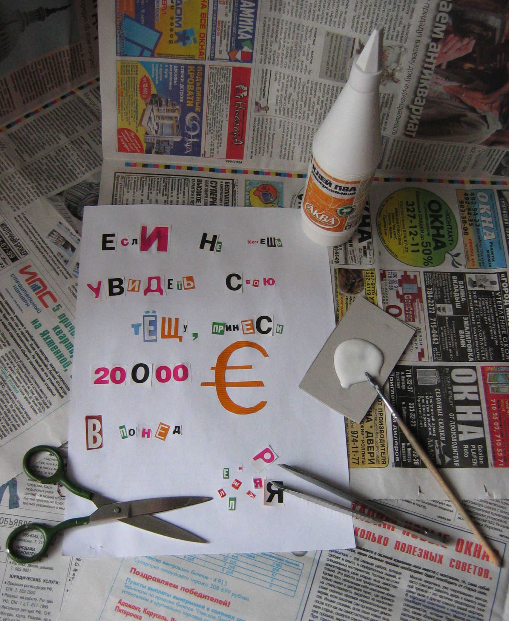 Using glue PVA.